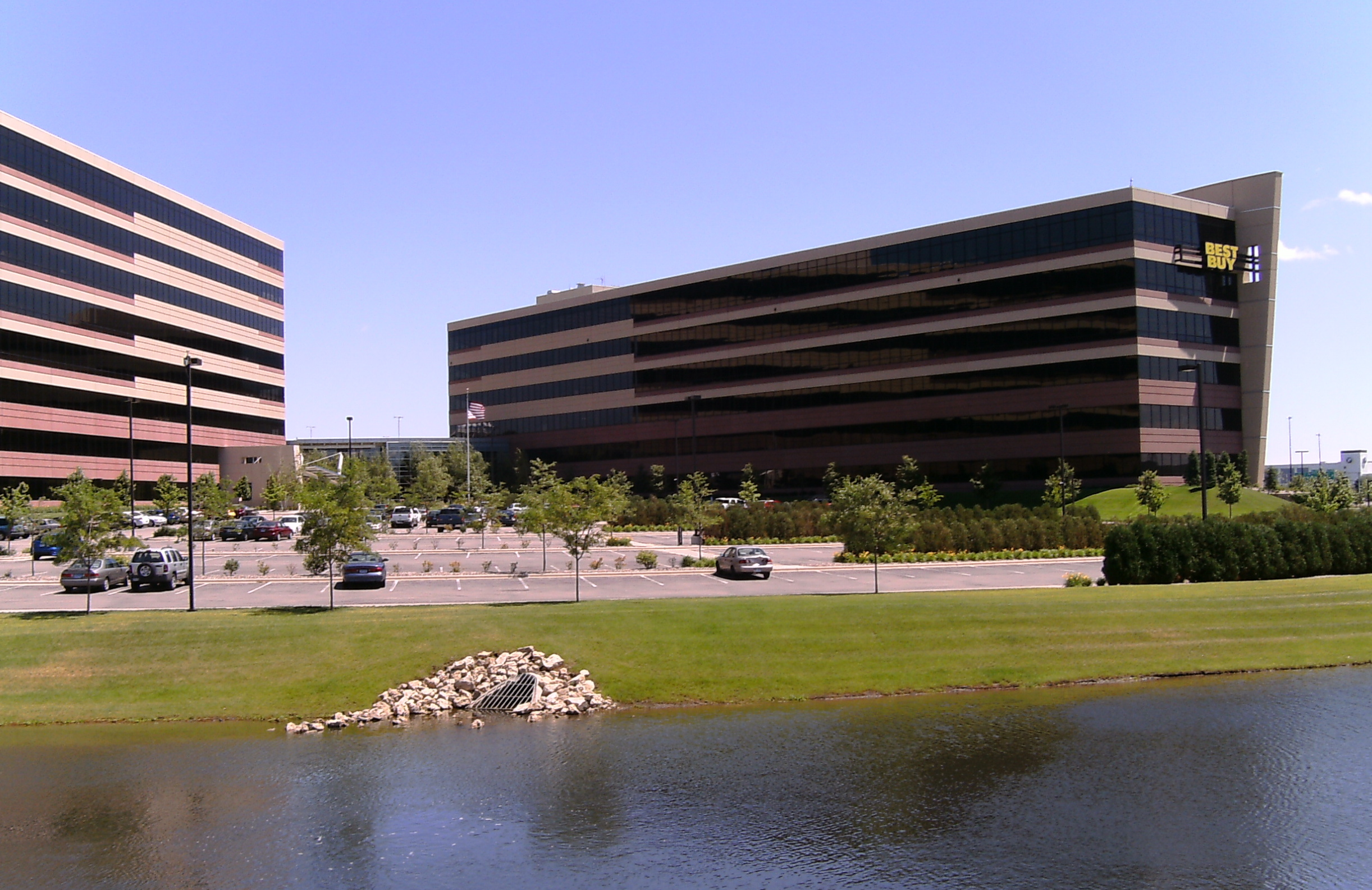 Best Buy corporate headquarters, Richfield, Minnesota